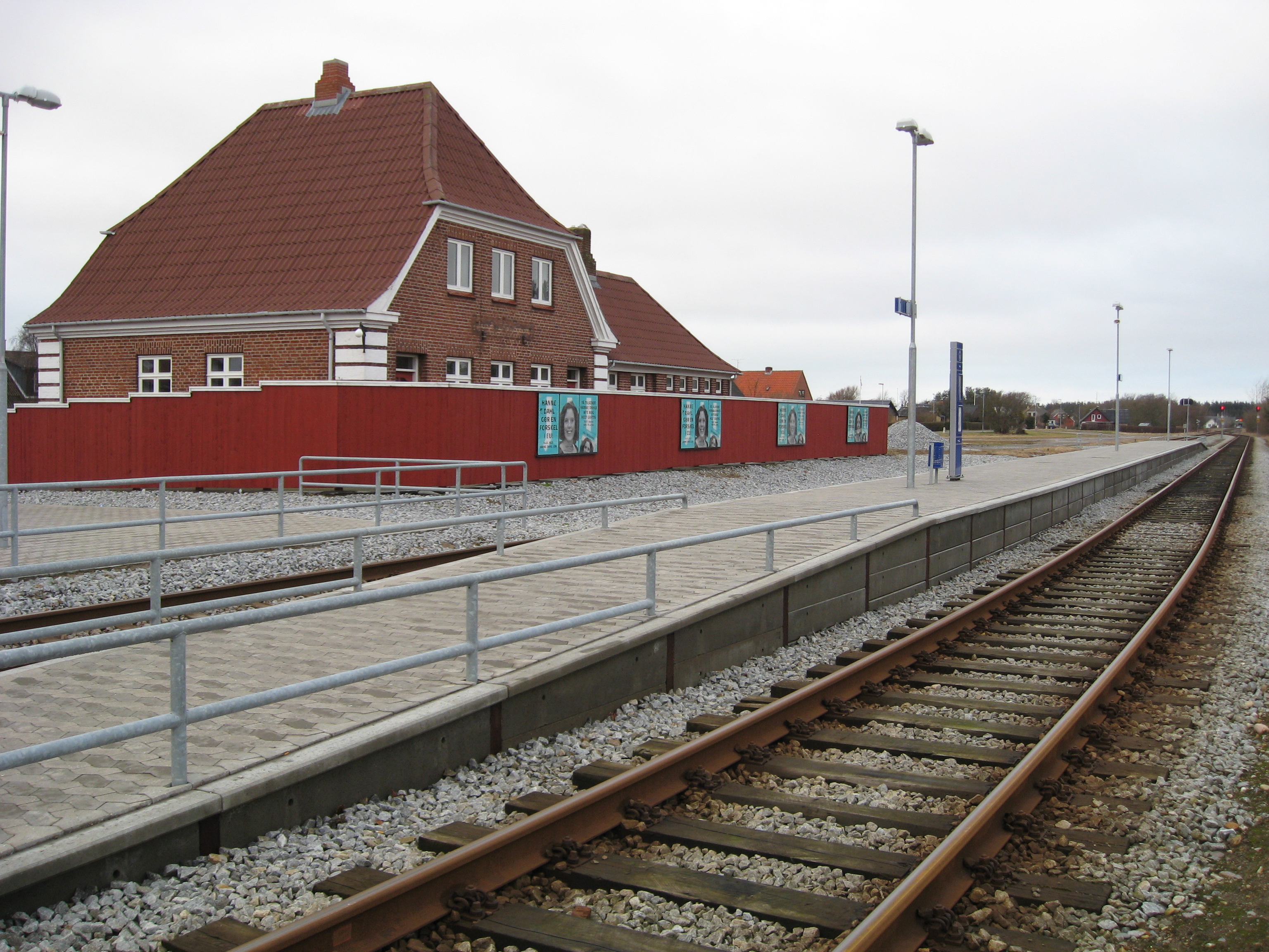 Train station in Tornby, Northern Denmark